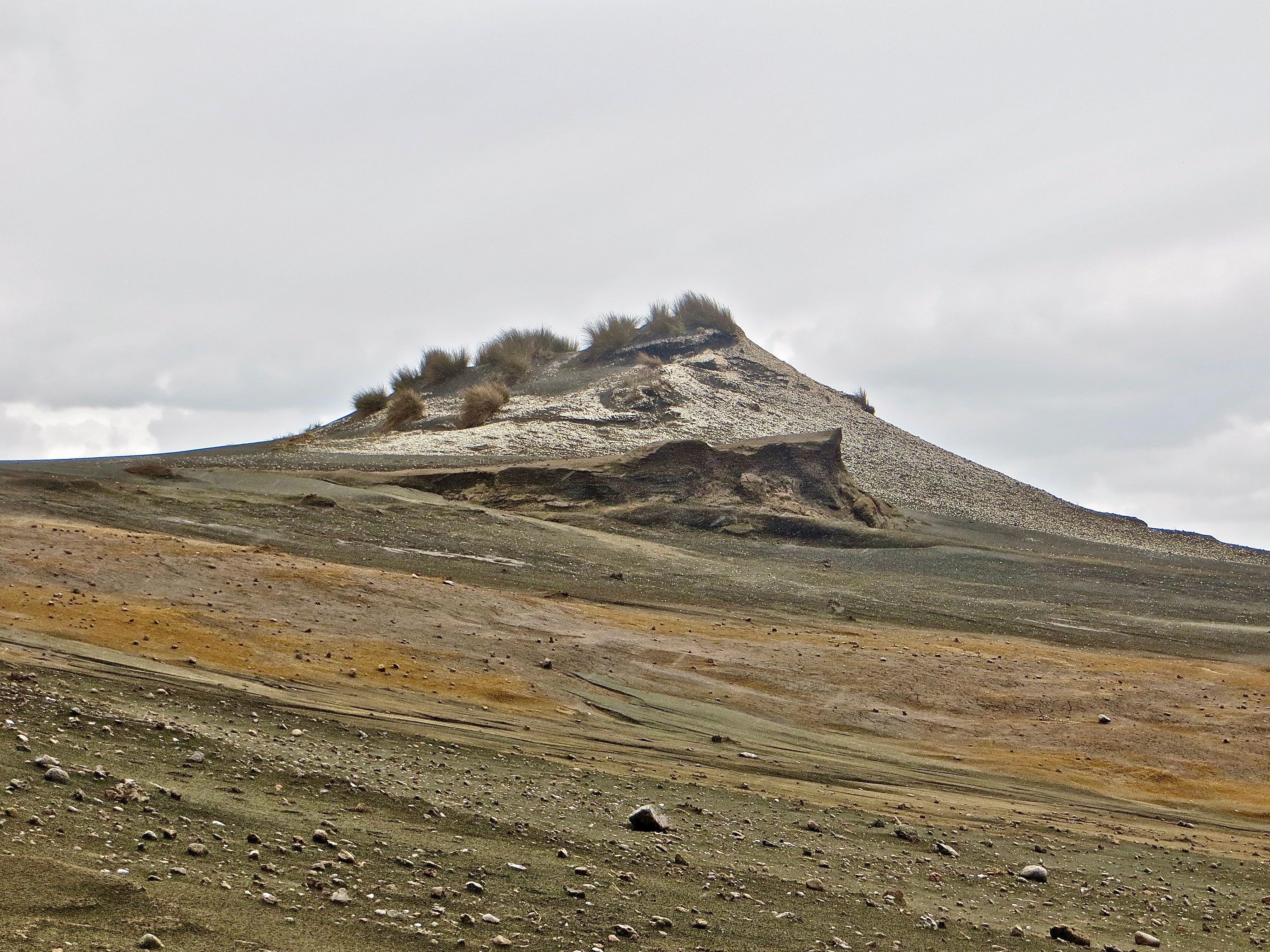 Shell midden near Te Kaha Pt